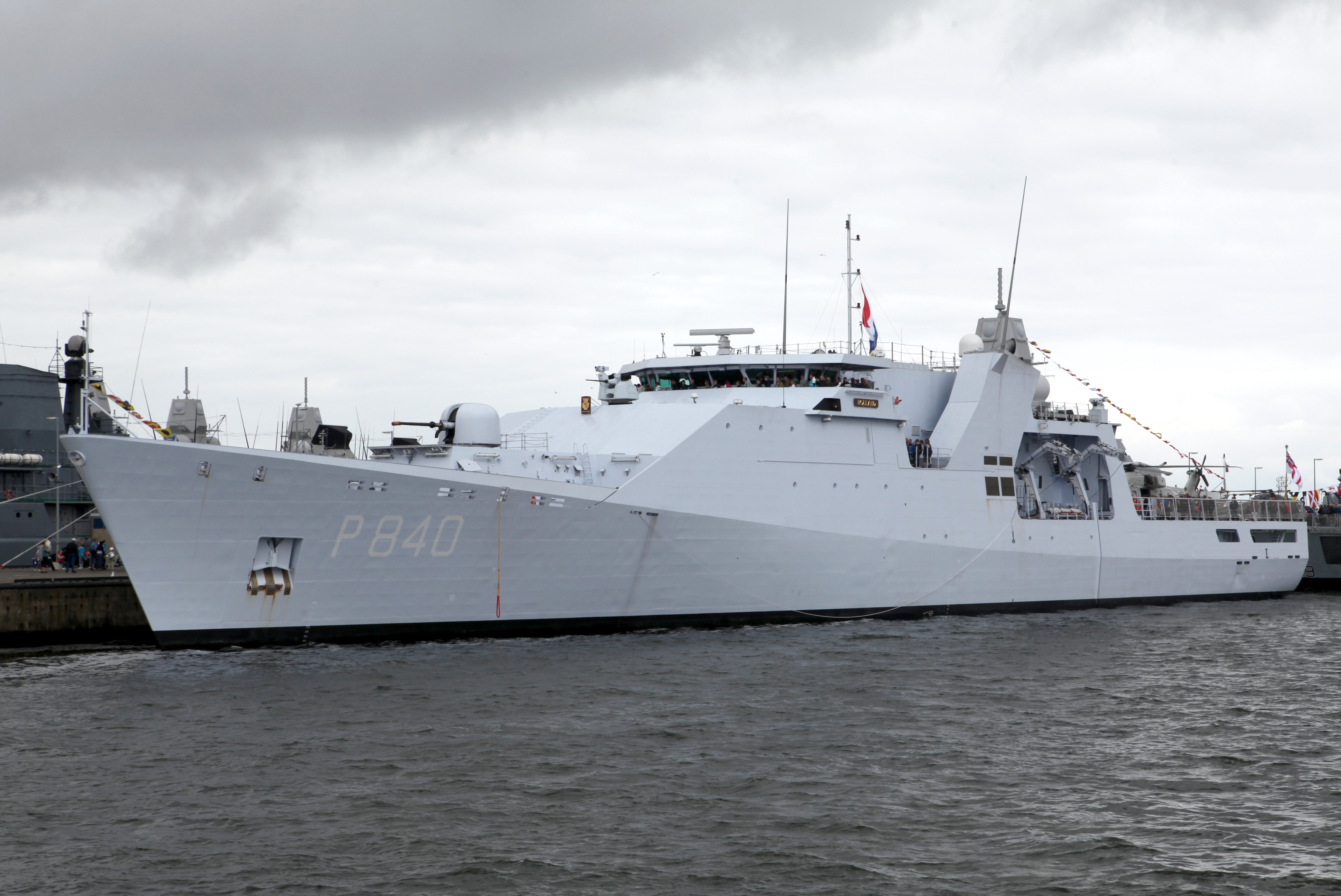 Holland class P 840 Holland Offshore Patrol Vessels (OVP)